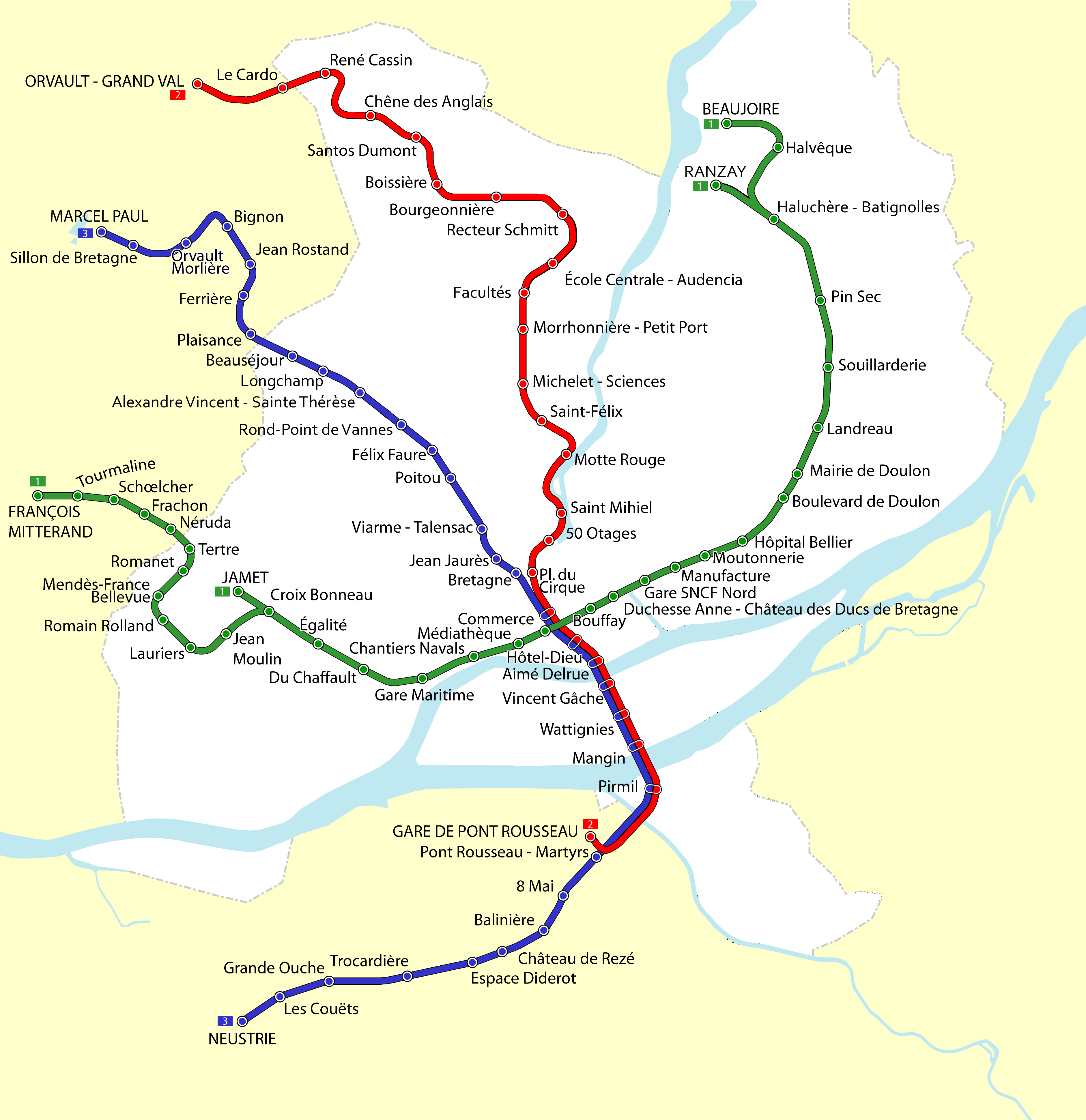 Tram map of Nantes (France) since October 2012